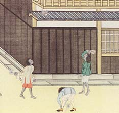 Scene of Badminton in Dejima, Japan. 18th century painting.